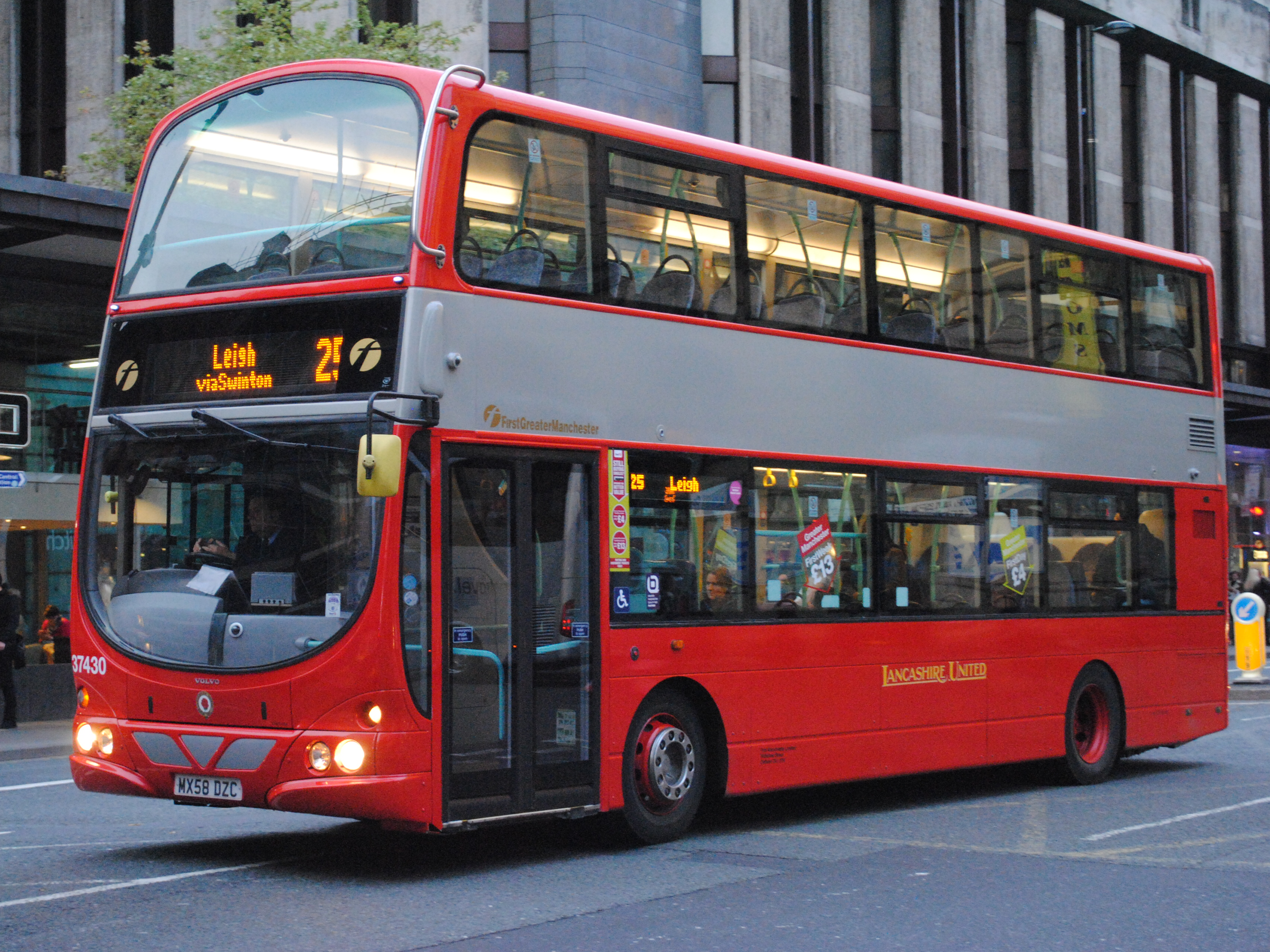 Volvo B9TL Wright Eclipse Gemini. Lancashire United heritage liverey